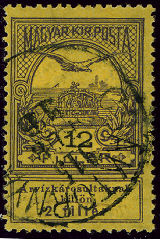 Kingdom of Hungary Flood Charity special issue 1913 stamp, 12 + 2 fillér, lilac on yellow paper (SG196), cancelled CSAKTORNYA in 1915, Mur Island, Croatia.